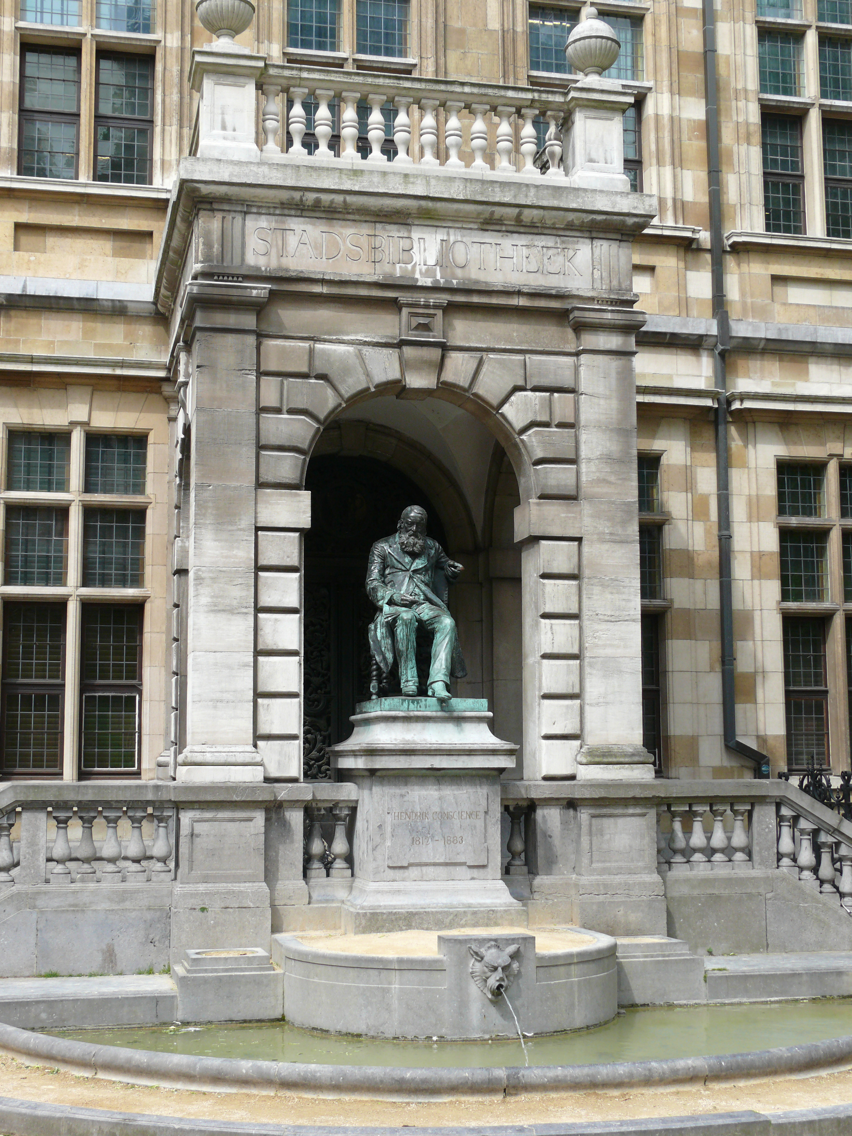 Statue of Hendrik Conscience (1883) by Frans Joris in front of the Erfgoedbibliotheek (formerly Stadsbibliotheek -City Library) in Antwerp